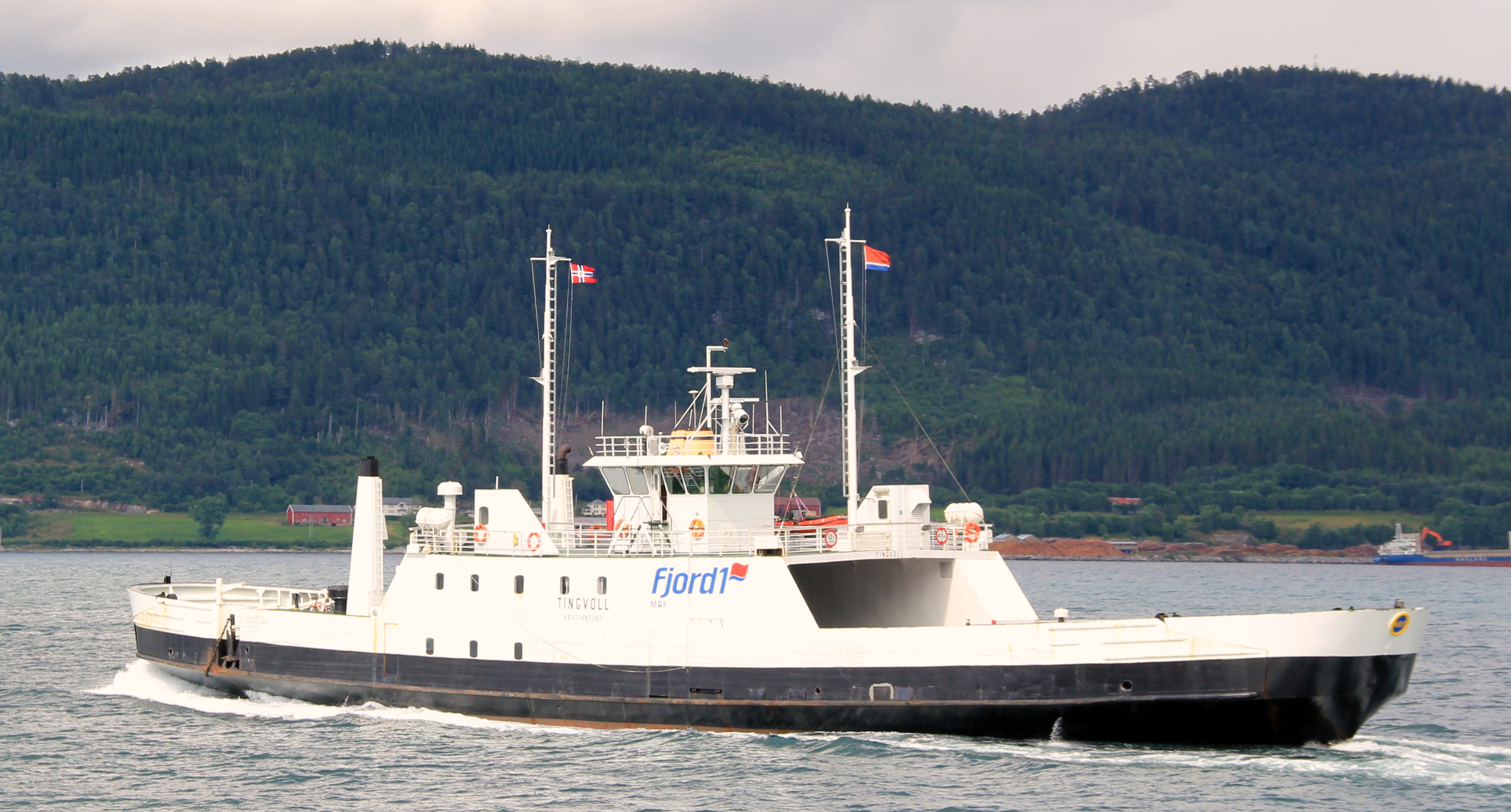 Ferry MF Tingvoll